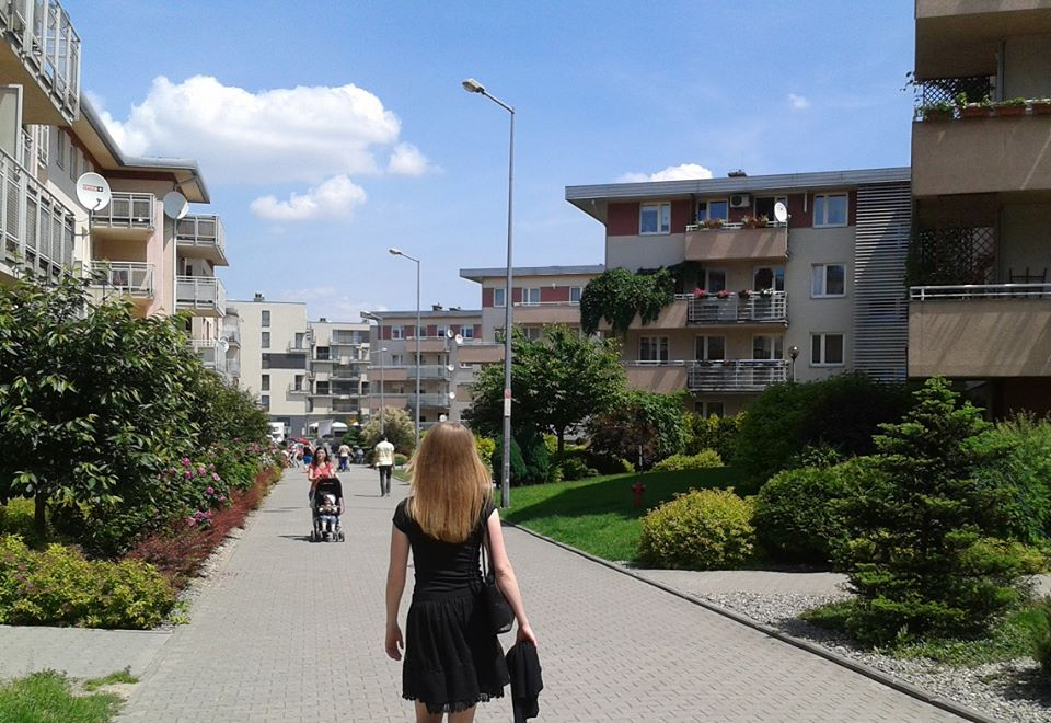 Ruczaj, Cracow